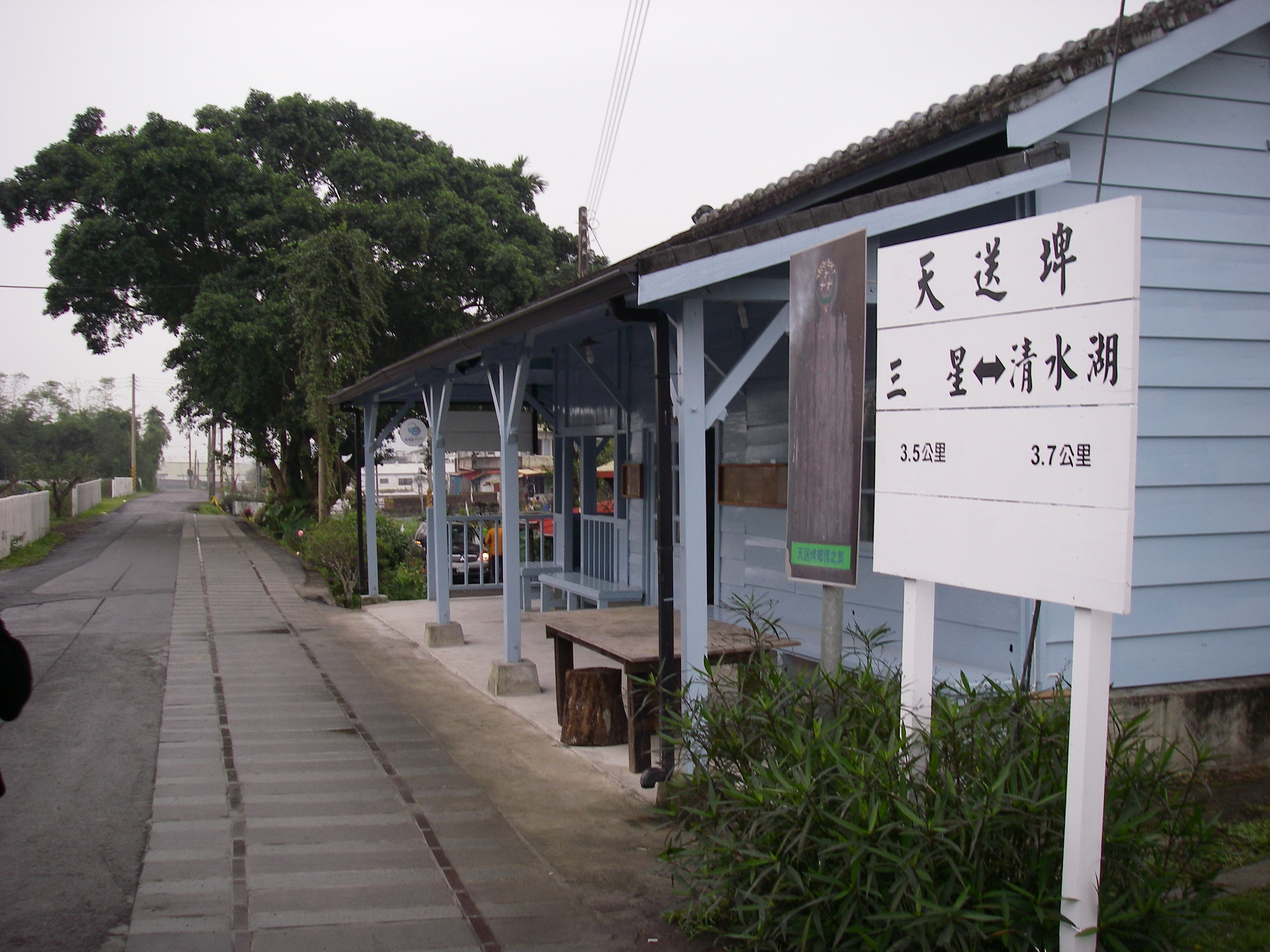 The restored train station of Sanxing in Yilan County, Taiwan.